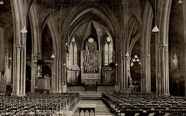 Original interior of St John the Divine, Kennington, circa 1900